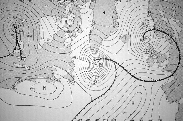 The weather on June 5th 1944 (the day beforeD-Day)/Le temps le 5 juin 1944 (veille du Jour J)